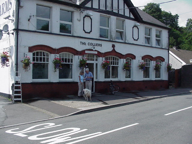 The Colliers, Efail-fach.